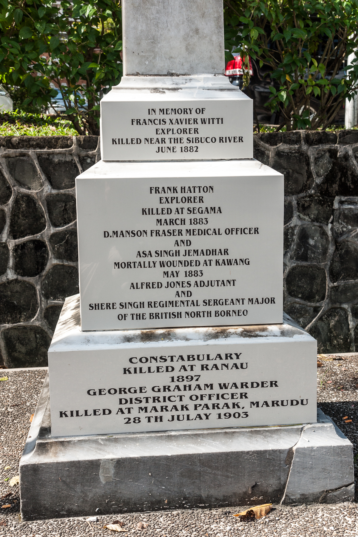 Sandakan, Sabah: Chartered Company Memorial